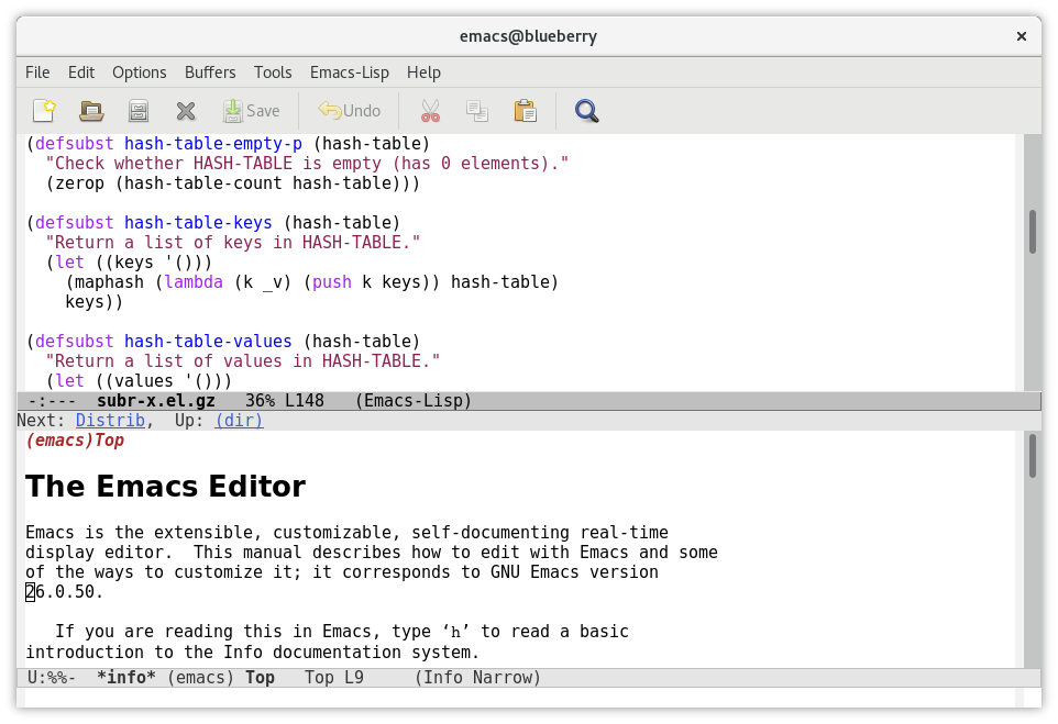 GNU Emacs 25 running on GNOME 3